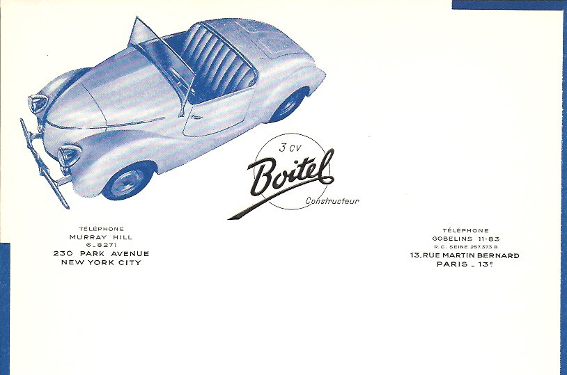 Someone sent me a piece of original sales letterhead for this French microcar. I've had this for many years but just realized that it has this raised lettering on it, so it is an original, not a copy. I scanned only the top part as the page is blank, unused. Wikipedia thinks that no cars were produced for sale, but they did take some orders for this model, which had a 688cc engine. Perhaps it was a North American distributor that made those orders. Apparently only the one prototype of this model was produced. Boitel was convicted of keeping the deposits and did jail time. The car below appears to be the 1946 prototype, but its 400cc engine couldn't handle two people in the car. Safe to call this a totally failed venture.